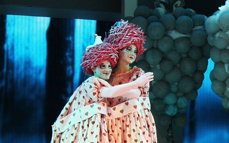 Original cast of "All about Cinderella"